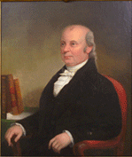 United States Attorney General and Massachusetts Governor Levi Lincoln, Sr..